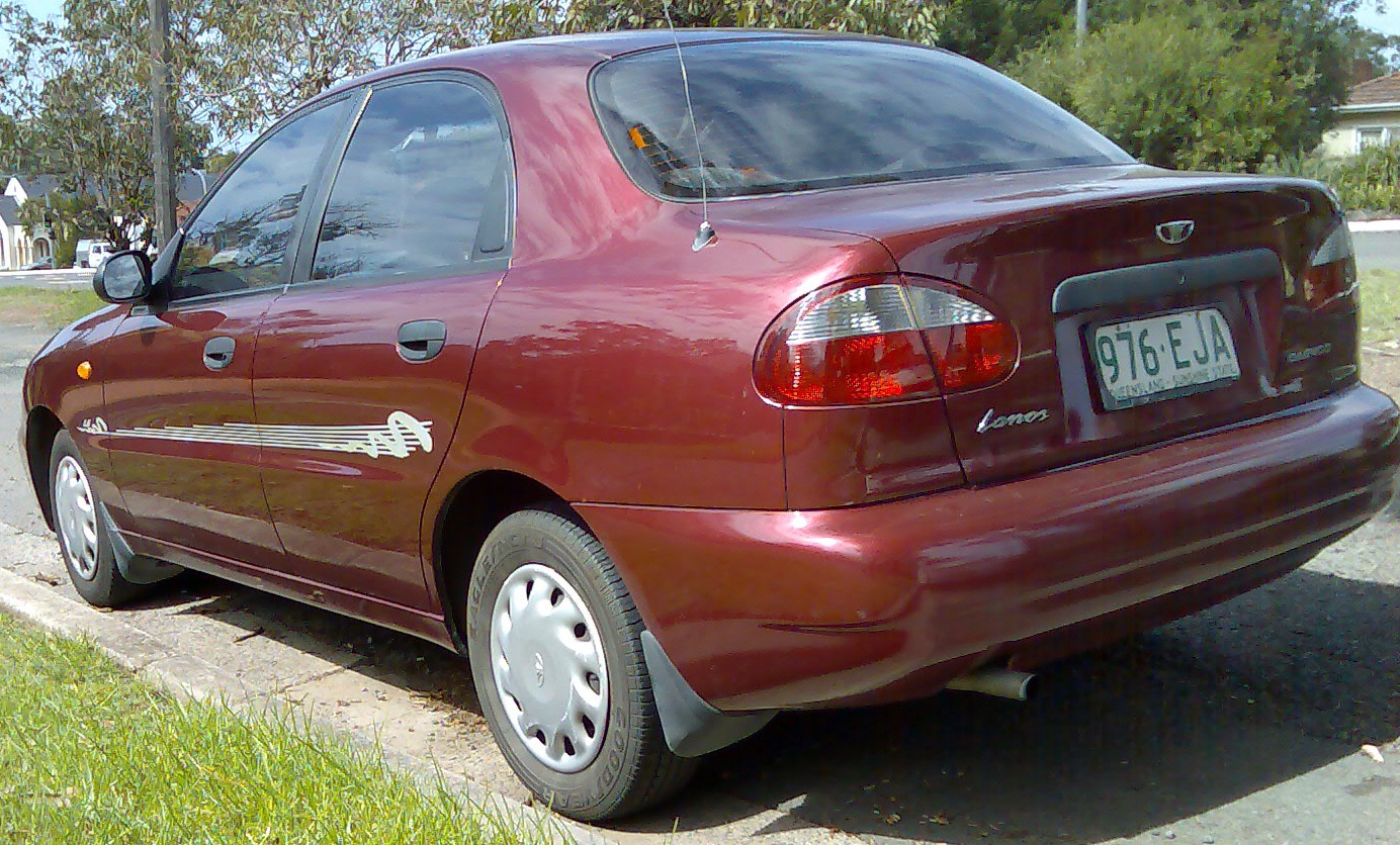 1998 Daewoo Lanos (T100) Limited Edition sedan. Photographed in Gymea, New South Wales, Australia.